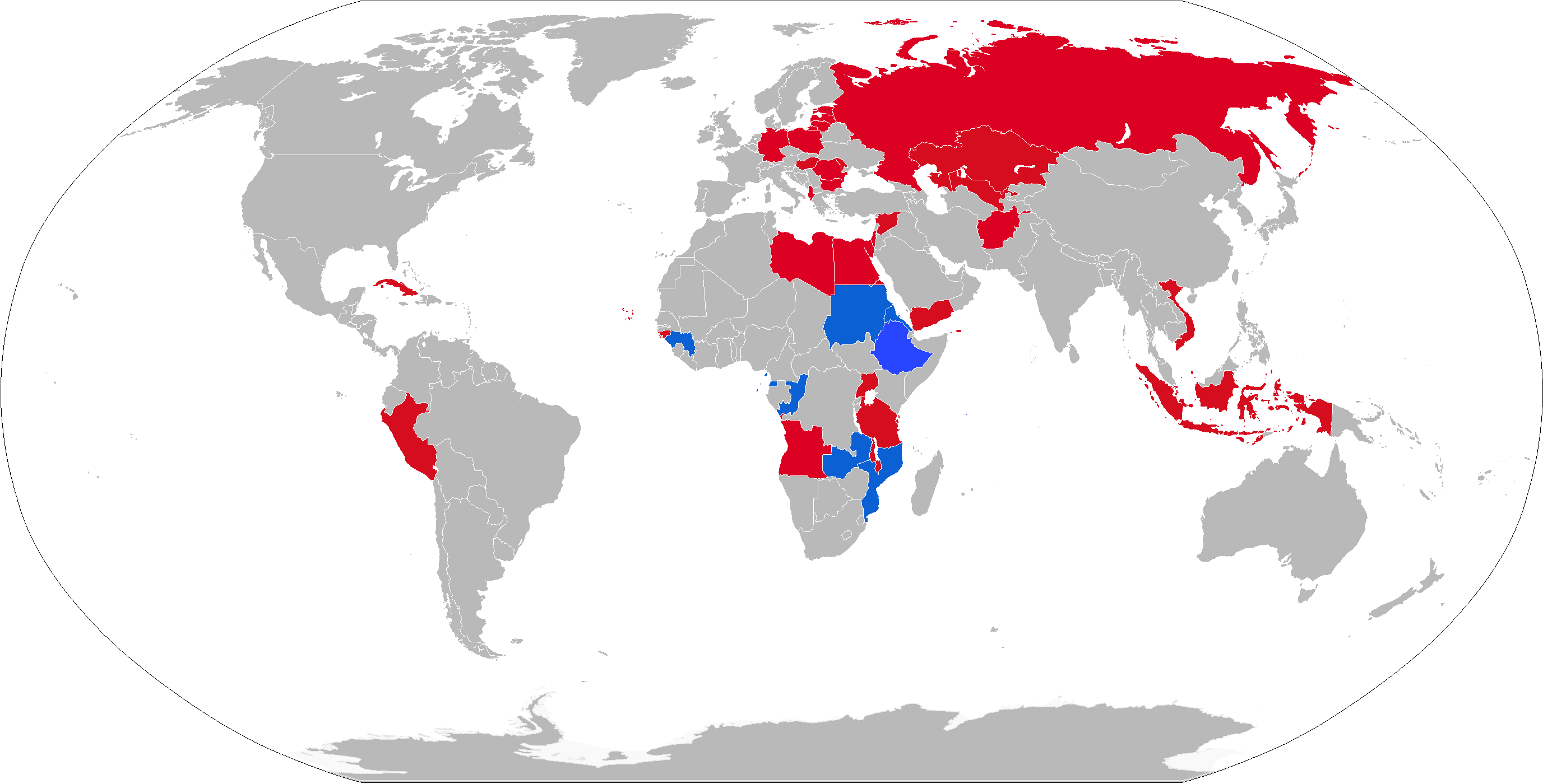 Map of BRDM-1 operators in blue with former operators in red